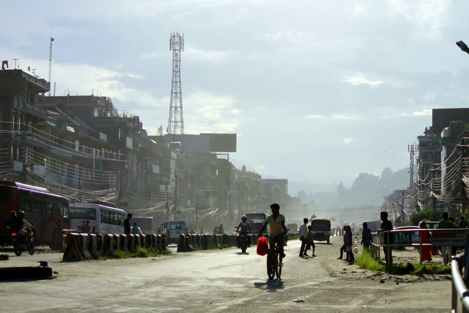 Banepa